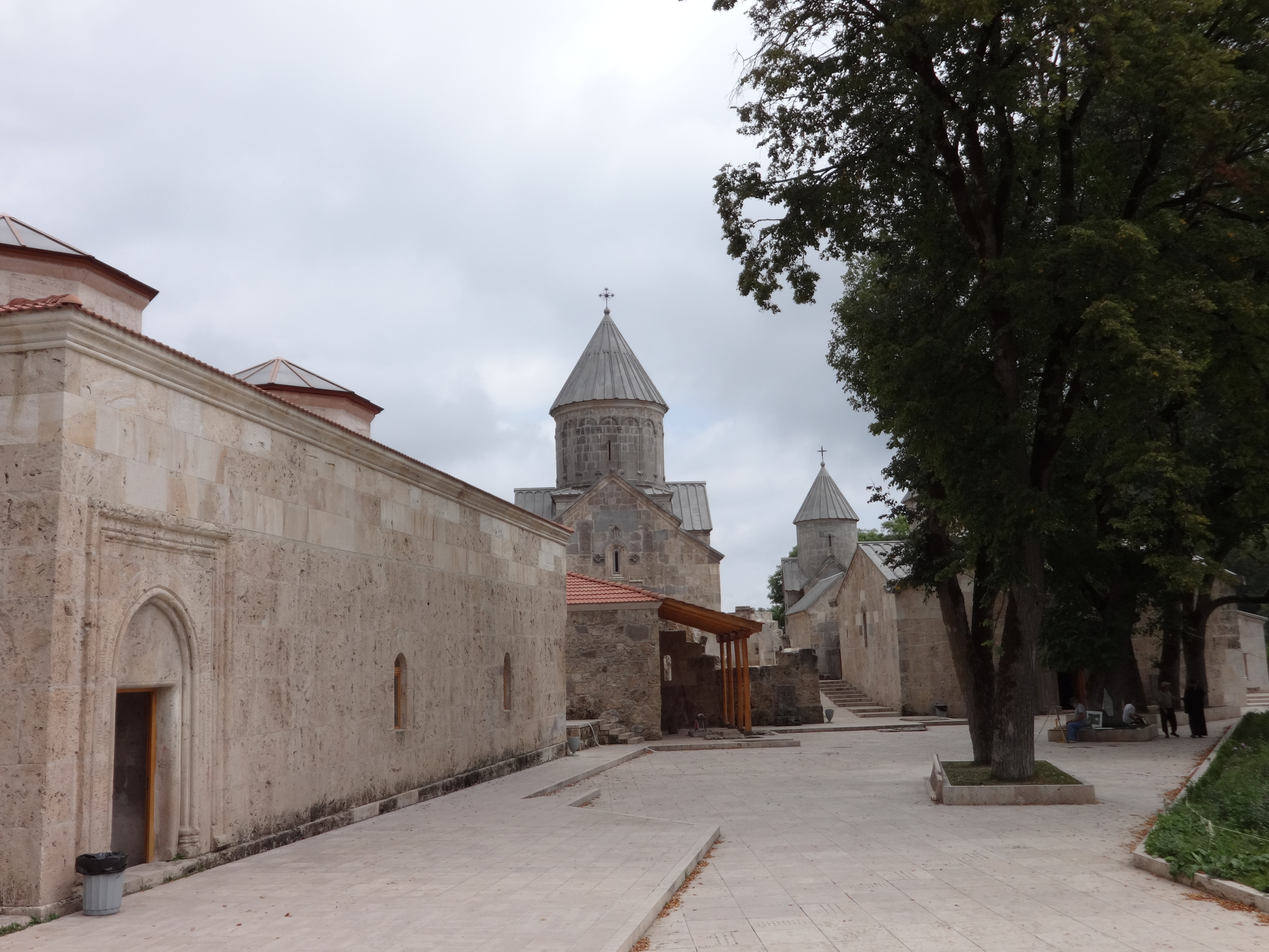 Hagharzin monastry in 2013 after renovation